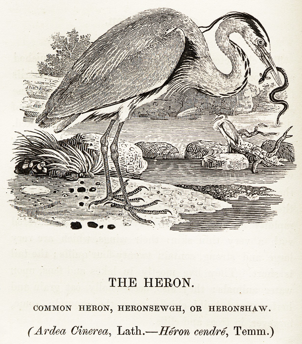 Woodcut of Heron from History of British Birds by Thomas Bewick, 1847 edition.